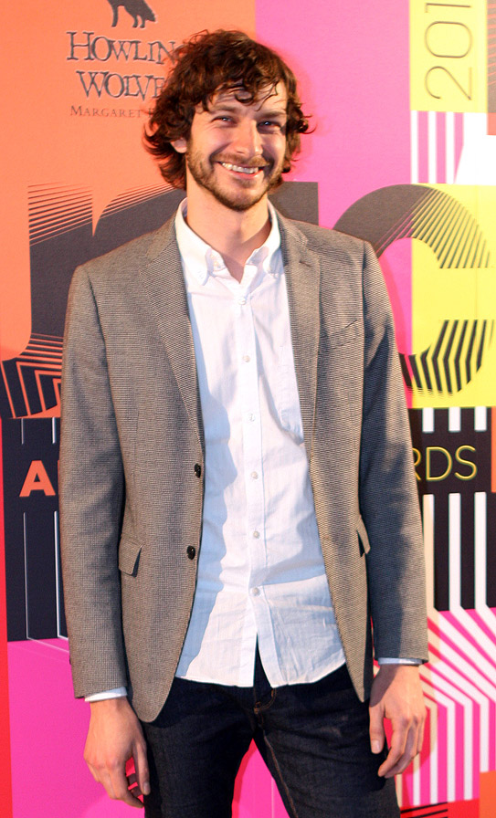 Gotye attending the 2012 APRA Awards.